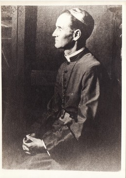 Francis Resch